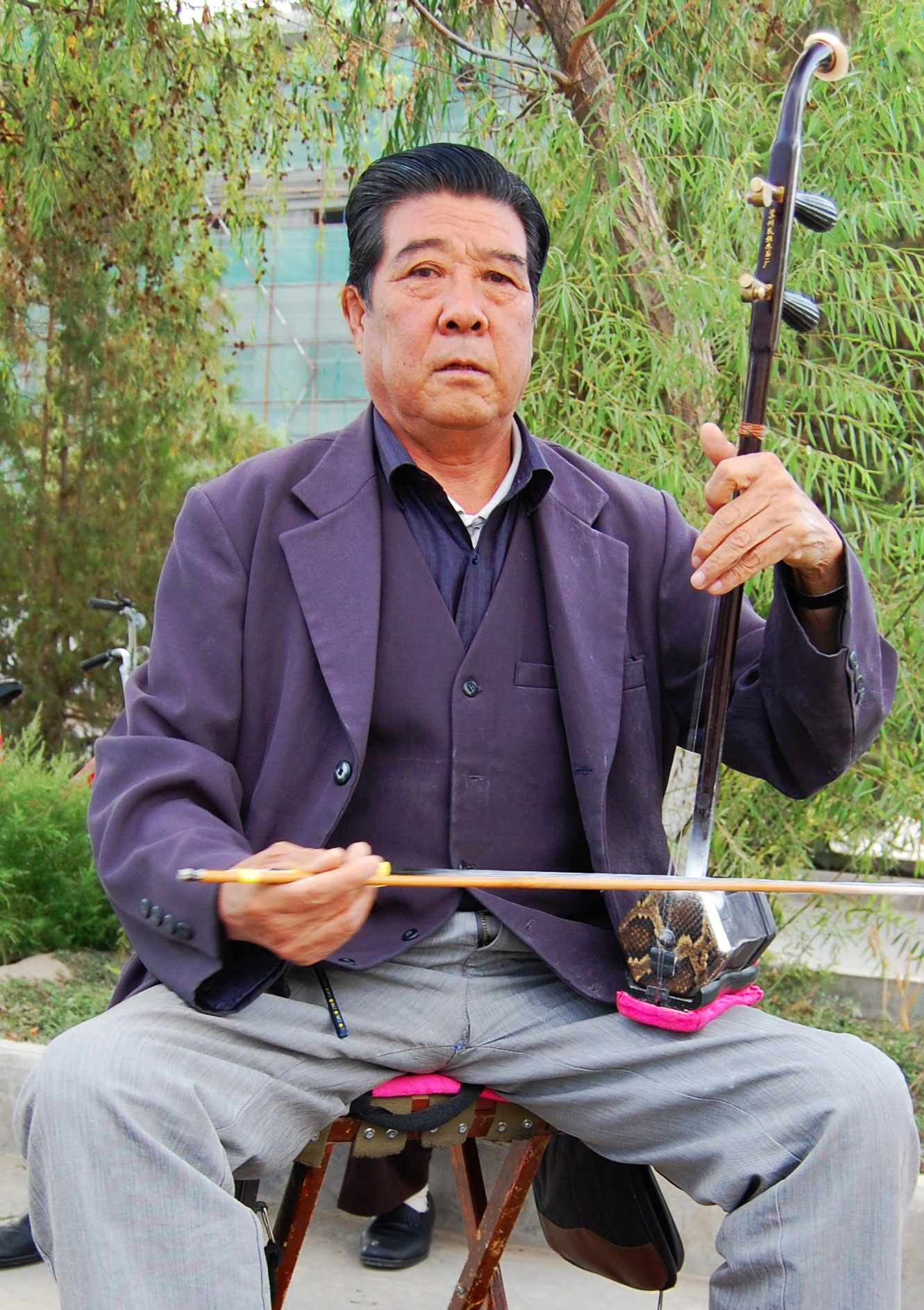 Chinese musicians in Jiuquan